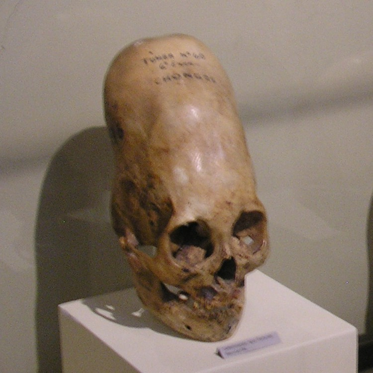 Skull on display at Museo Regional de Ica in the city of Ica in Peru. They are related to the Paracas Textiles